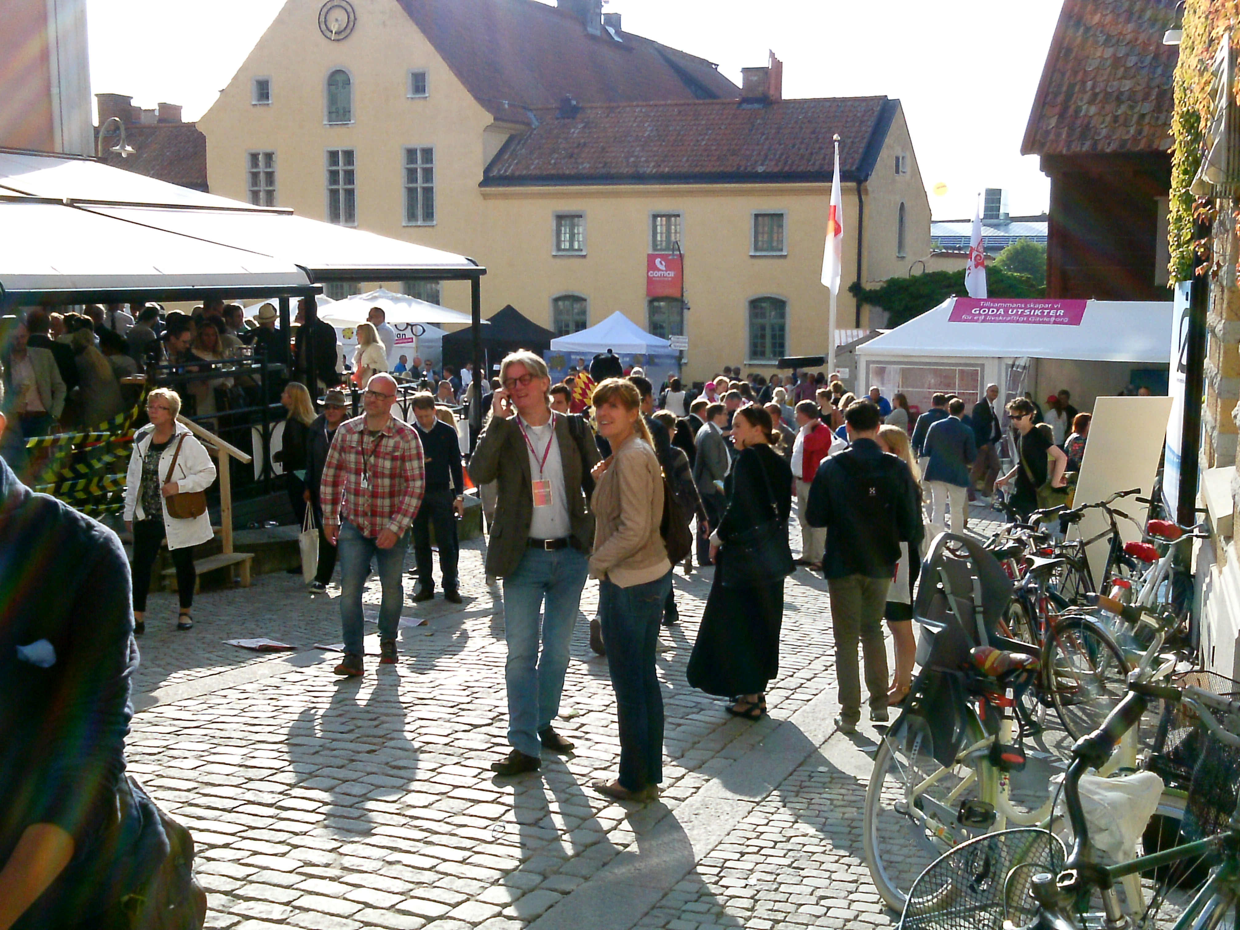 People at Donners square during Almedalen week 2014, Visby, Gotland, Sweden.